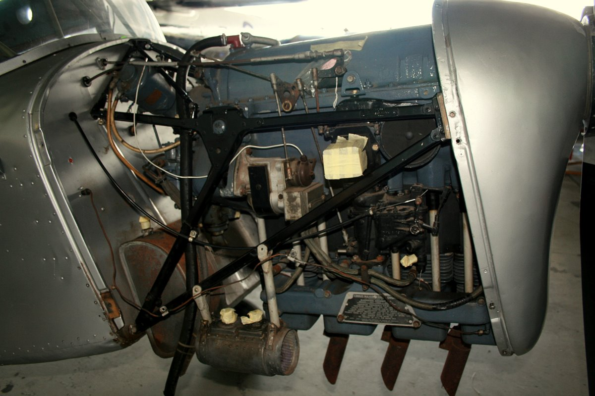 Right-side view of a Blackburn Cirrus Major 3 inline engine, fitted to a non-airworthy Auster J/5G. Some items have been removed and the resulting holes have been taped over.